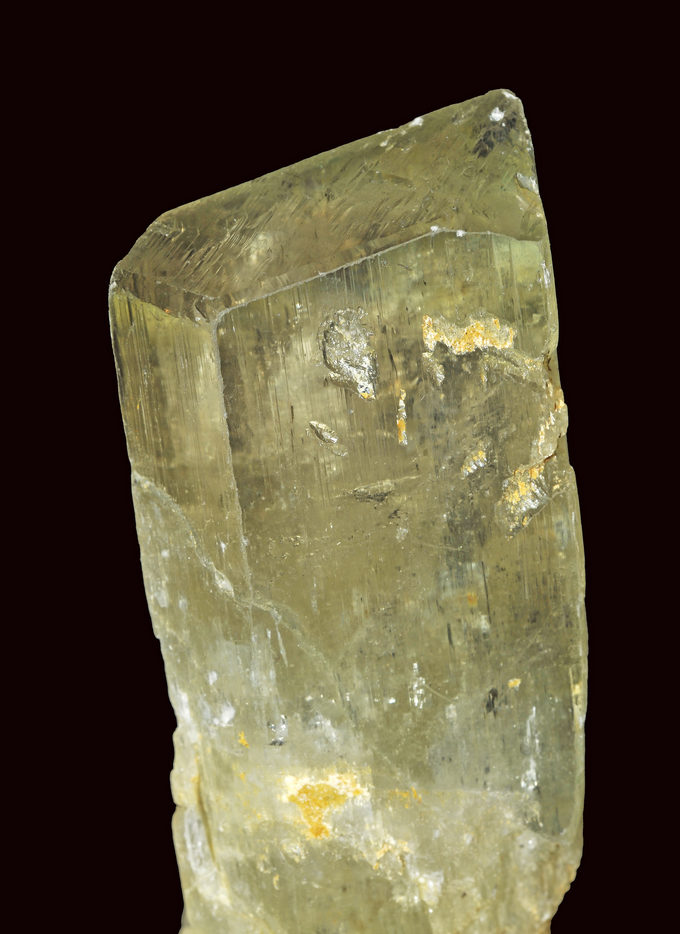 spodumene var. yellow spodumene : Kunar Mine, Kunar Valley, Konar Province (Kunar Province, Konarh Province, Konarha Province), Afghanistan - crystal : 88 mm